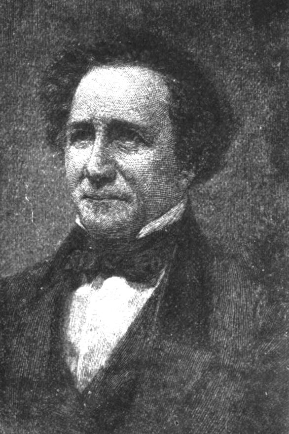 Clipper ship builder Jacob Bell. Bell and David Brown formed Brown & Bell, a shipyard located at the base of Stanton St. in New York.